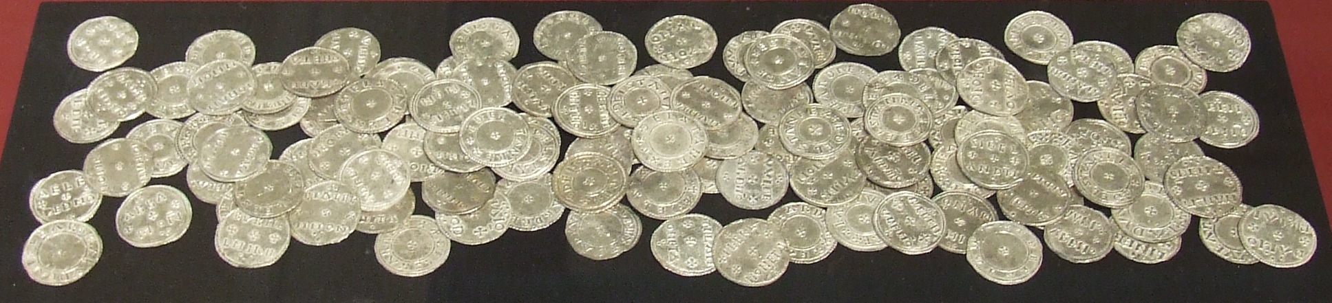 Silver pennies from the Vale of York hoard. Discovered January 2007. Currently in the British Museum.